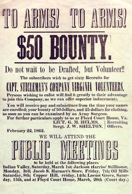 Recruiting poster for the Confederate States of America, Floyd County, Virginia, February 1862. Image courtesy of .